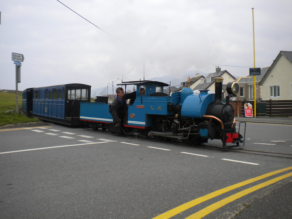 Train crossing Penrhyn Corner level crossing, Fairbourne. A train from Penrhyn Point crosses SH6113 : Penrhyn Corner level crossing, Fairbourne on the 12¼" gauge Fairbourne Railway, hauled by the steam locomotive "Sherpa", a half size replica of a Darjeeling Himalayan Railway B class locomotive.